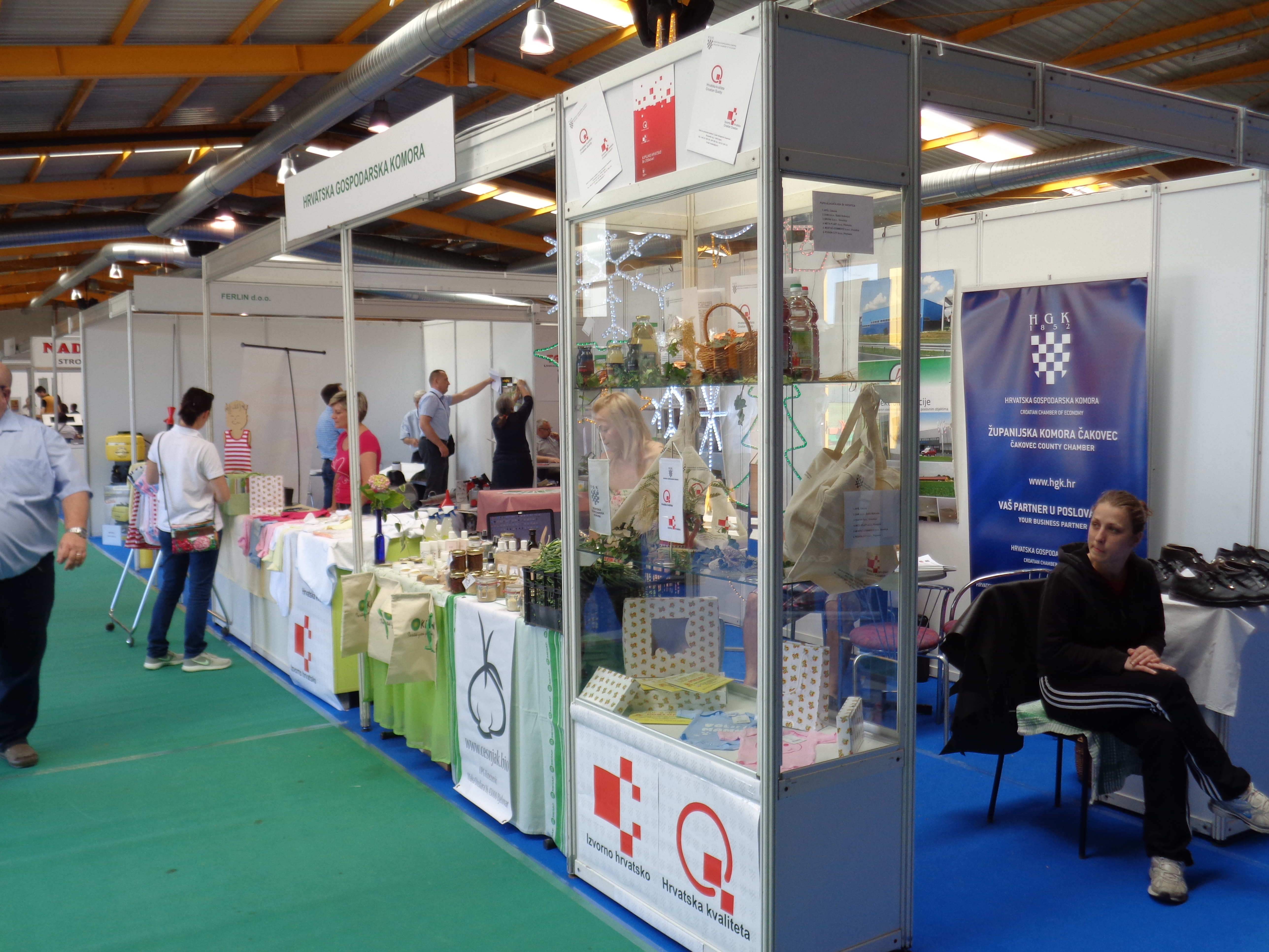 MESAP 2017. trade fair in Nedelišće, Medjimurje County, Croatia - exhibition booth of the Croatian Chamber of Economy